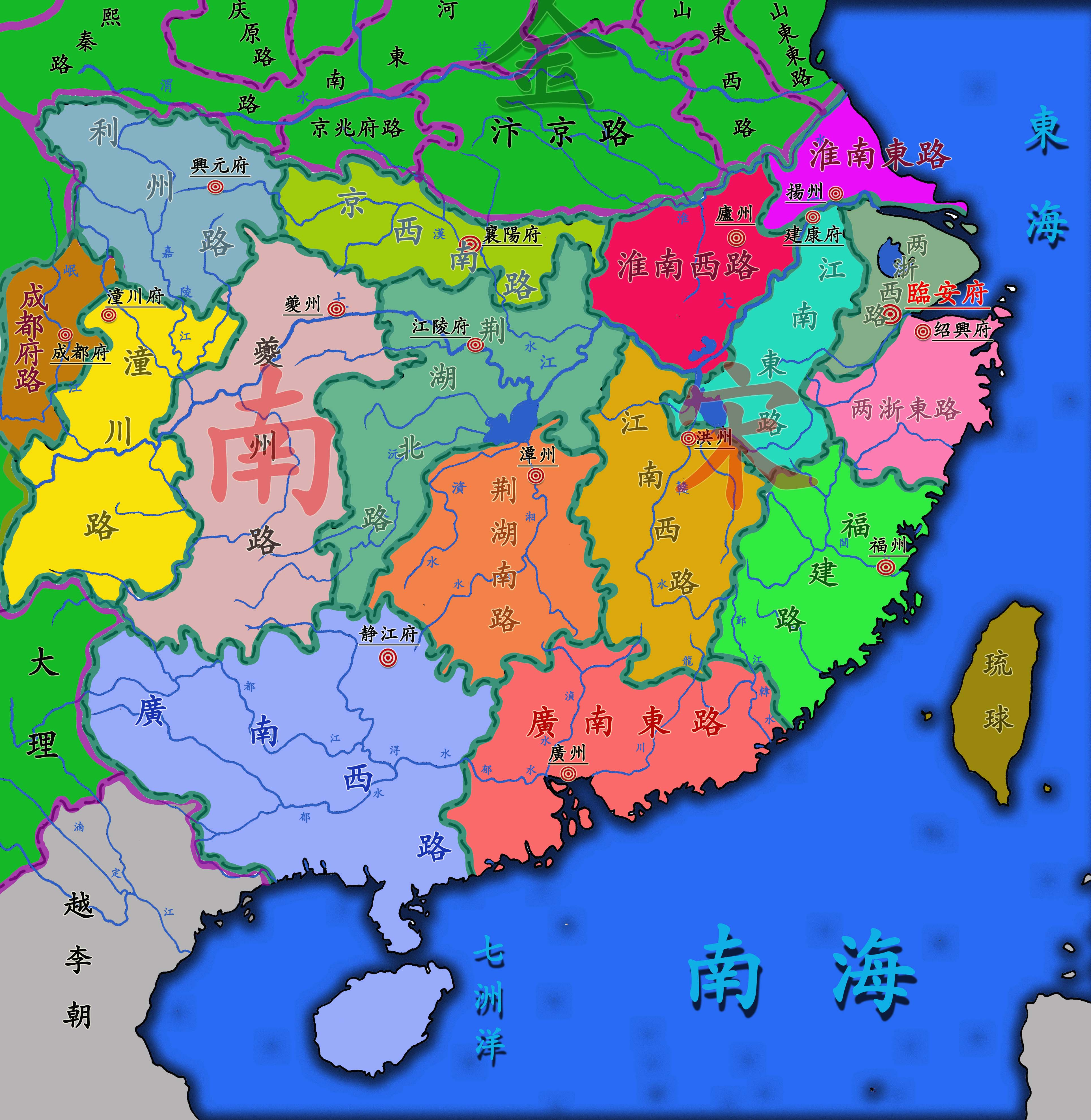 Map of Southern Song